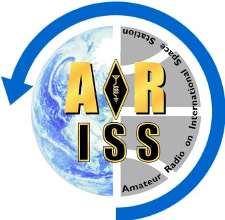 Logo of the non-profit organization "Amateur Radio on the International Space Statio".